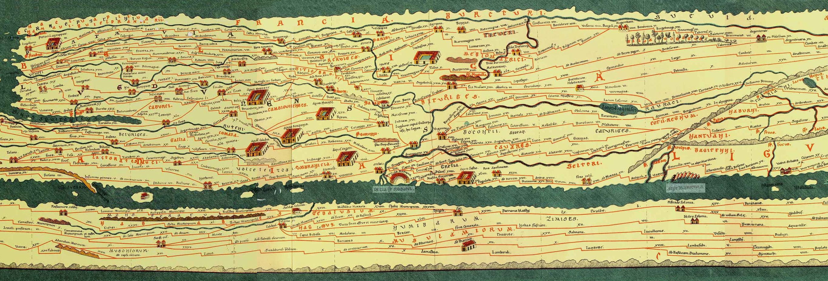 Belgica-Germania-Gallia part of "Image:TabulaPeutingeriana.jpg"